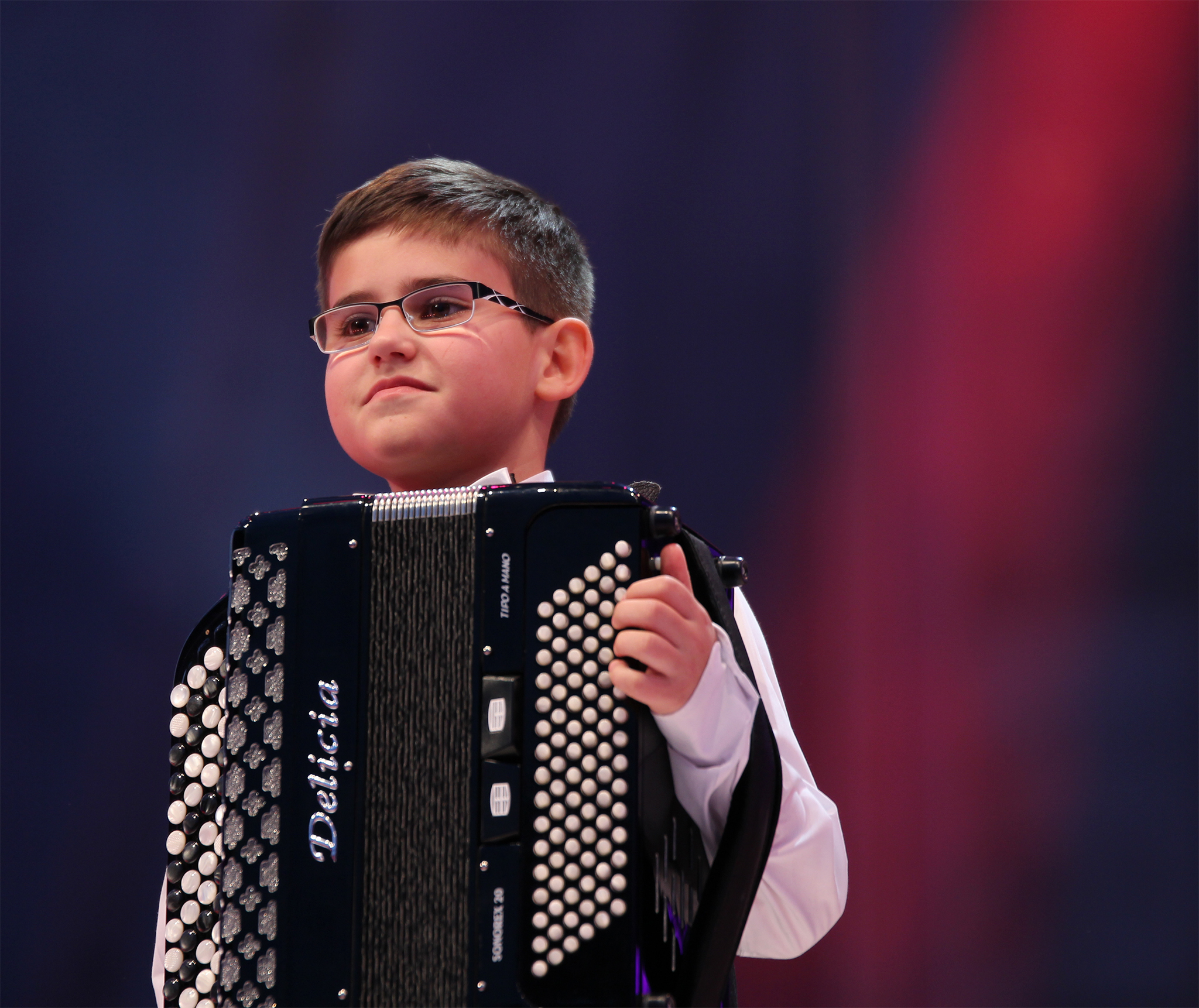 Martin Kot at final for Eurovision Young Musicians 2014